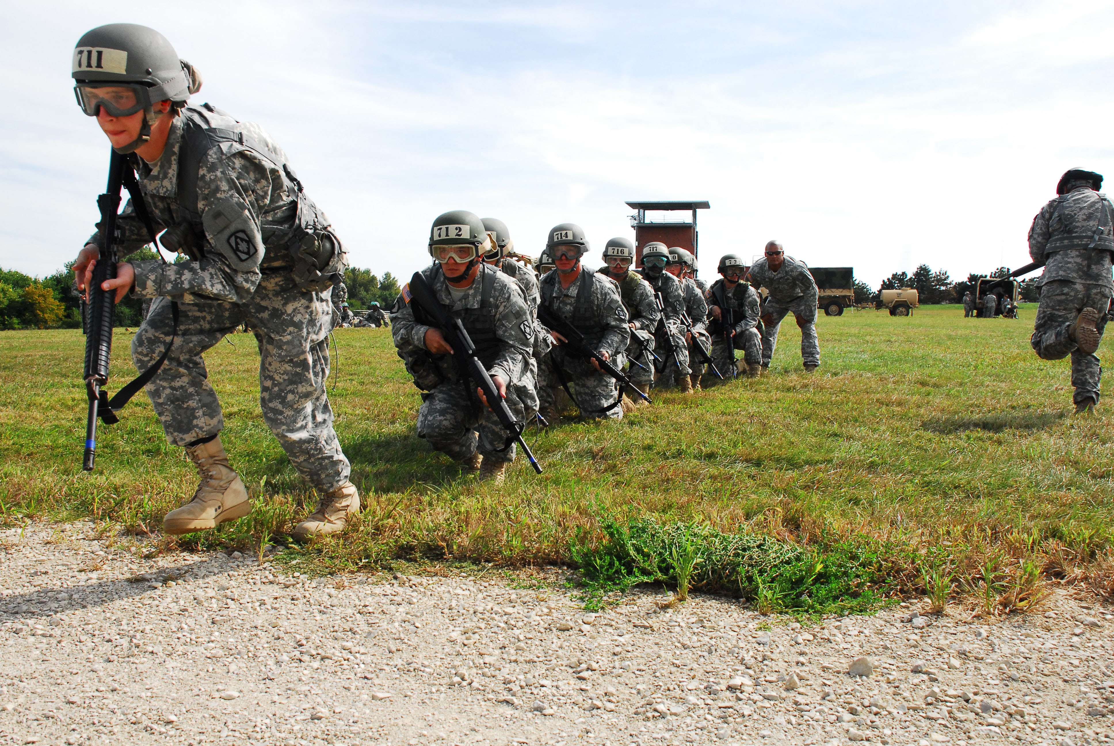 Soldiers go through the first week of Air Assault training during an Air Assault Course, Sept. 15 through Sept. 25 at Fort Riley, Kan.